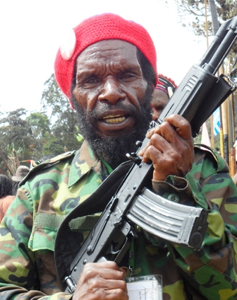 Panglima Tinggi TPNPB